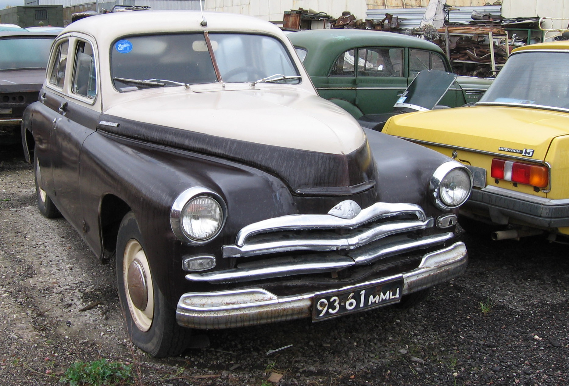 gaz m20 pobeda